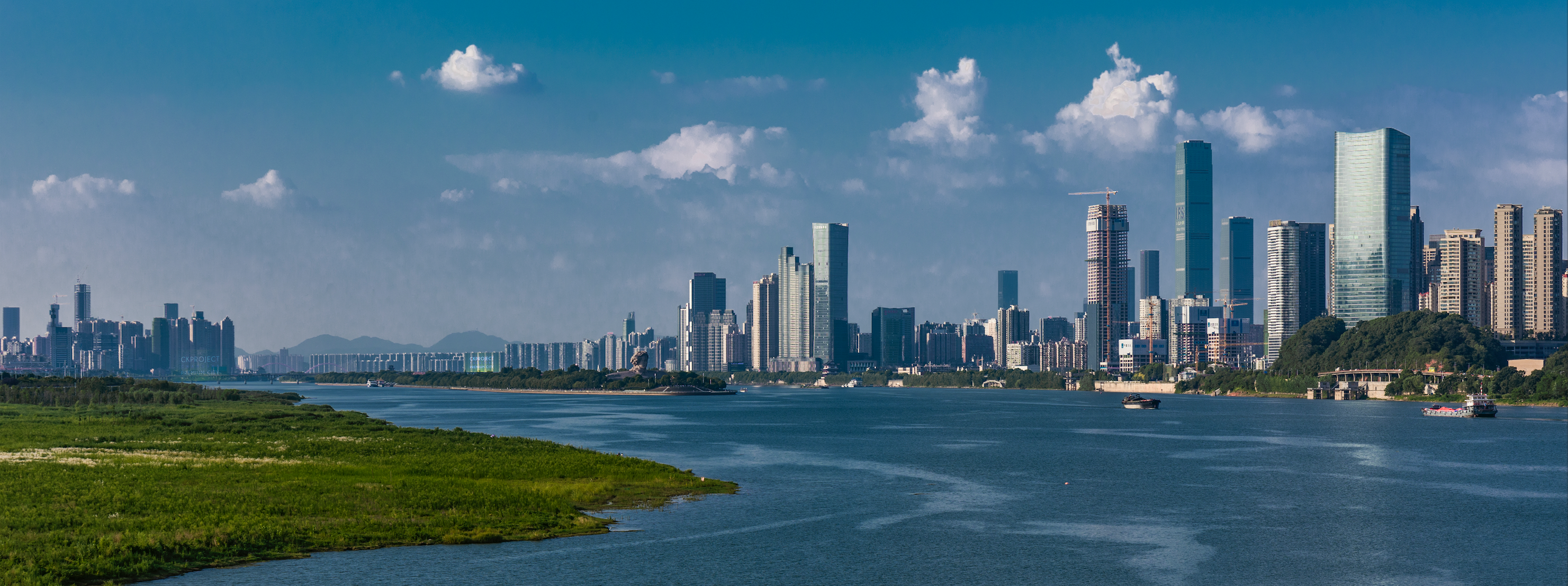 Skyline with Xiang River, photo by CkProject